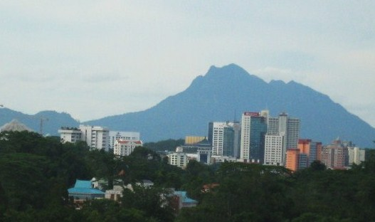 View of Kuching City Centre Skyline from Simpang Tiga Suburb